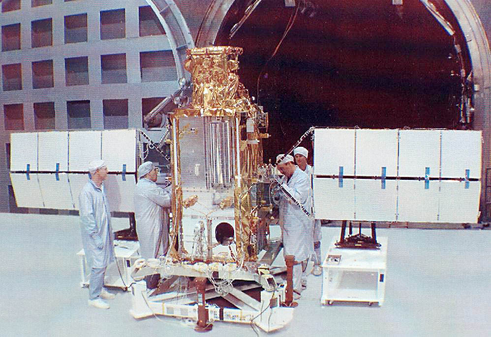 STEX (Space Technology Experiments) satellite with attached ATEx tether satellite during ground testing.